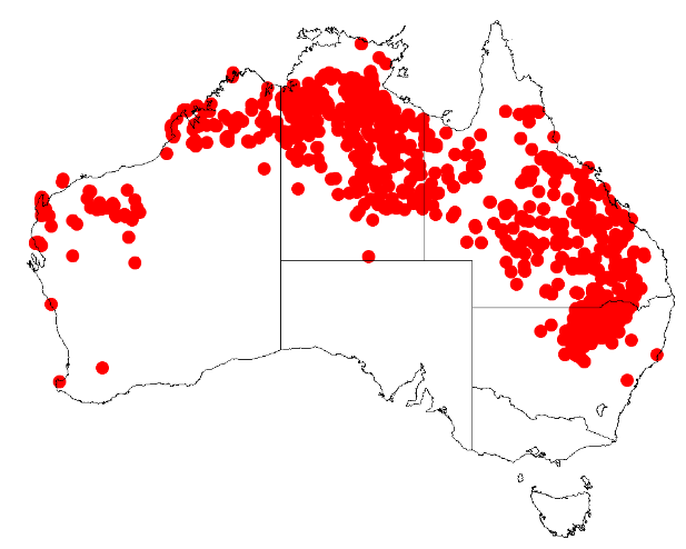 Capparis lasiantha occurrence data downloaded from GBIF 1 July 2019.